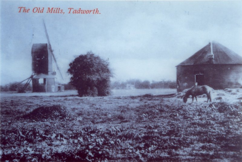 Phototgraph of New Mill, Tadworth with roundhouse of the Old mill